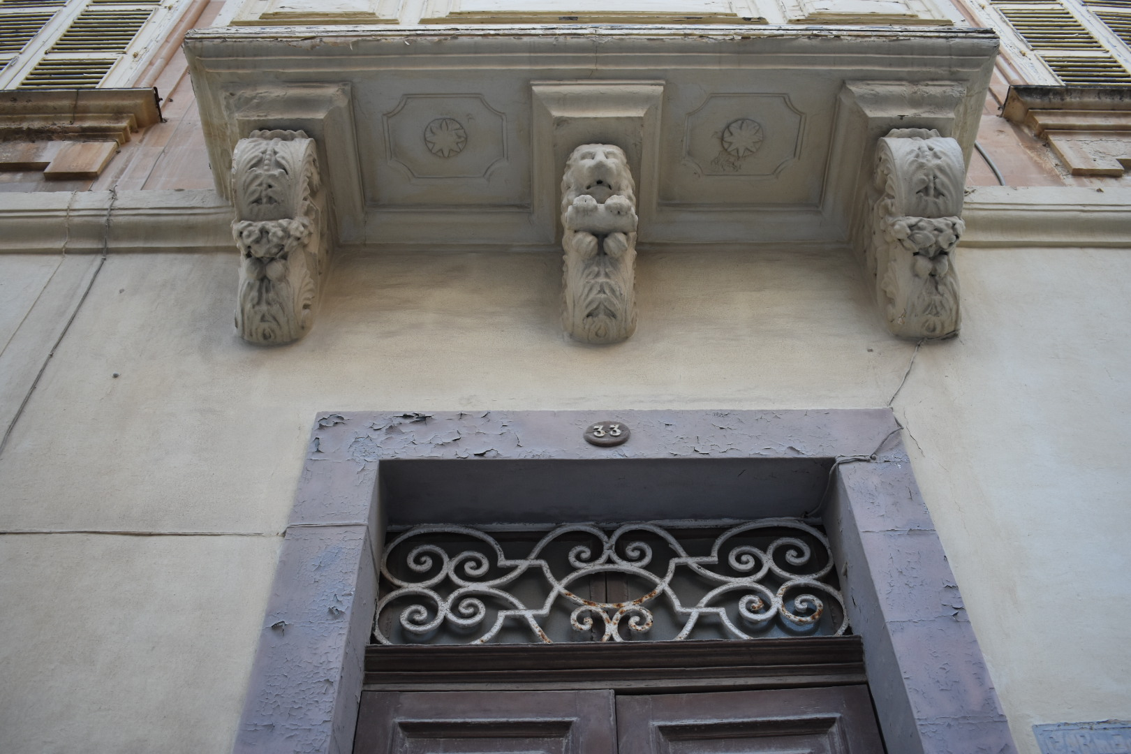 Carmel House